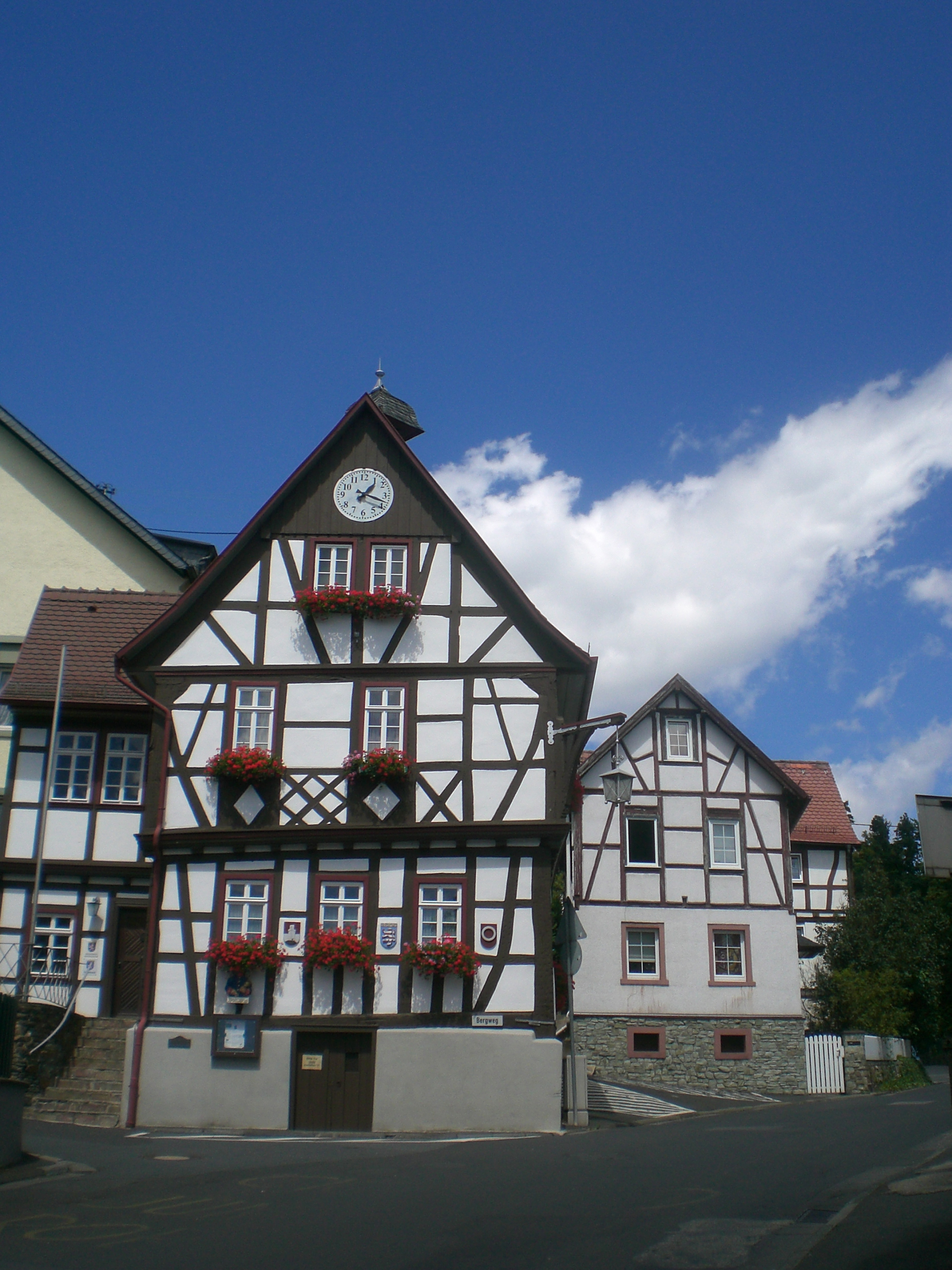 Timber framed houses in Falkenstein, community Königstein im Taunus, Hesse, Germany